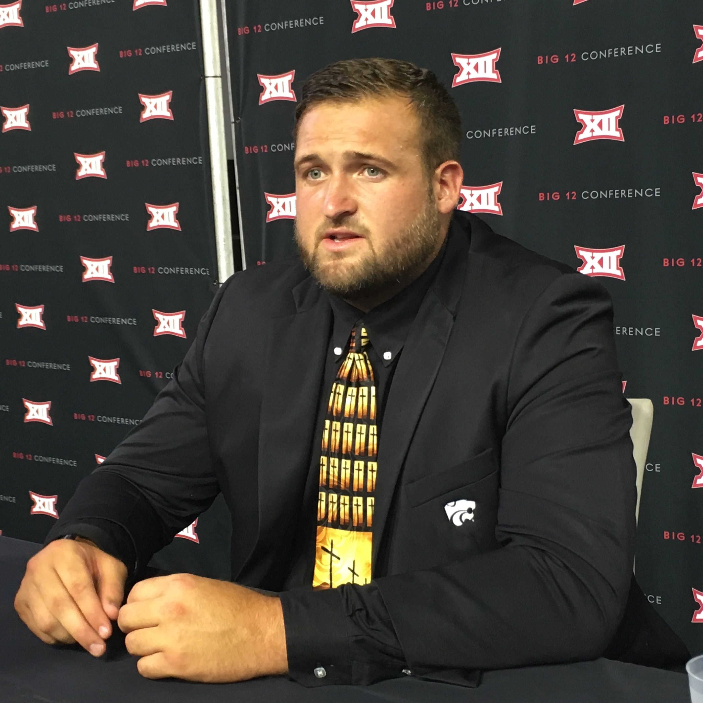 Dalton Risner, offensive guard for the Kansas State Wildcats football football team, at the 2018 Big 12 Conference Media Days in Frisco, Texas.